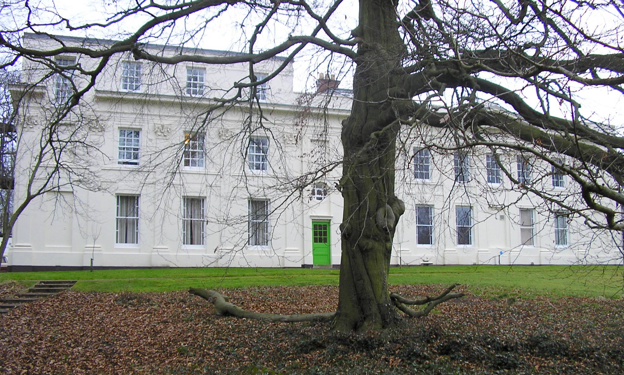 Woodbrooke Quaker Study Centre in 2009. Main building.